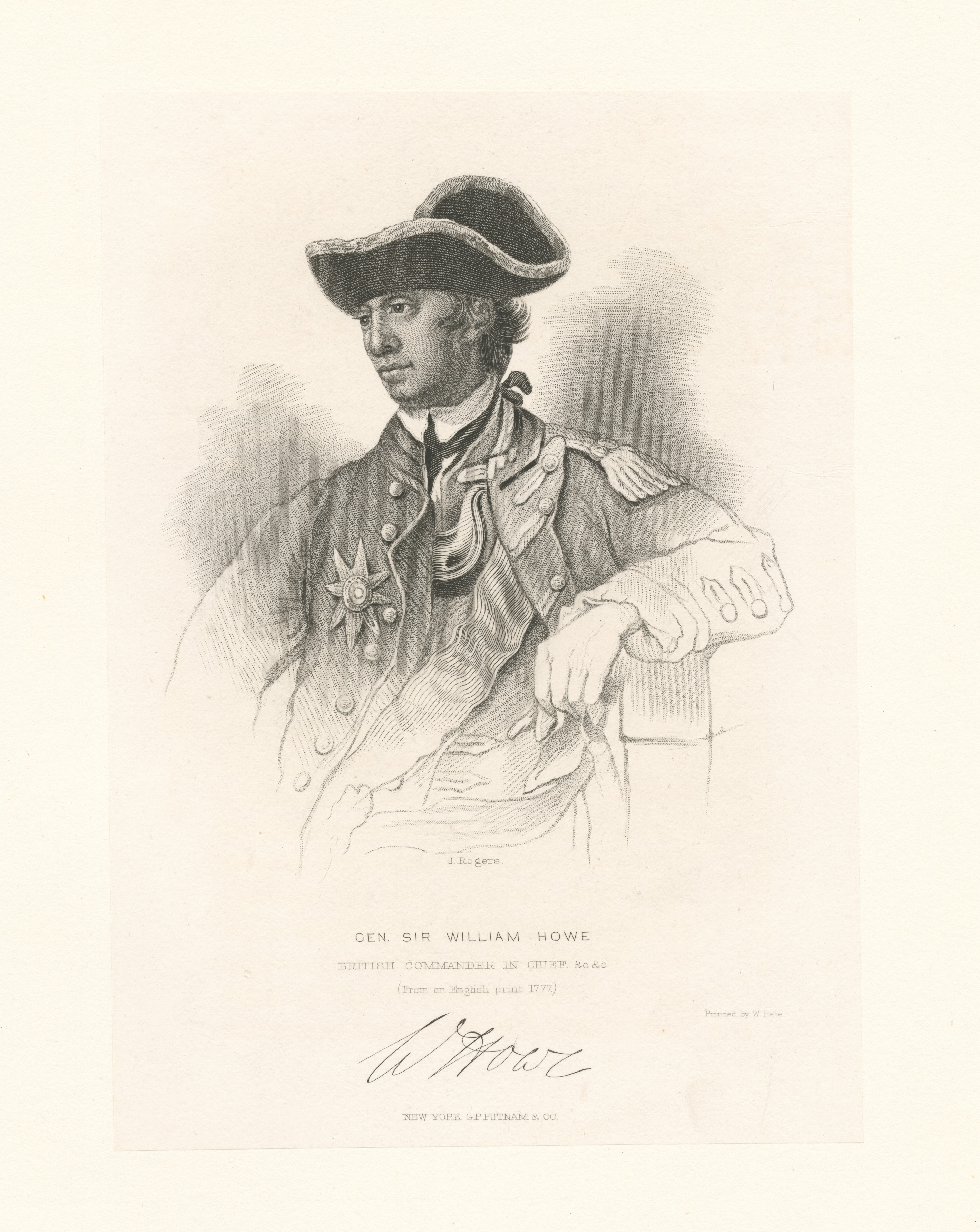 EM3418